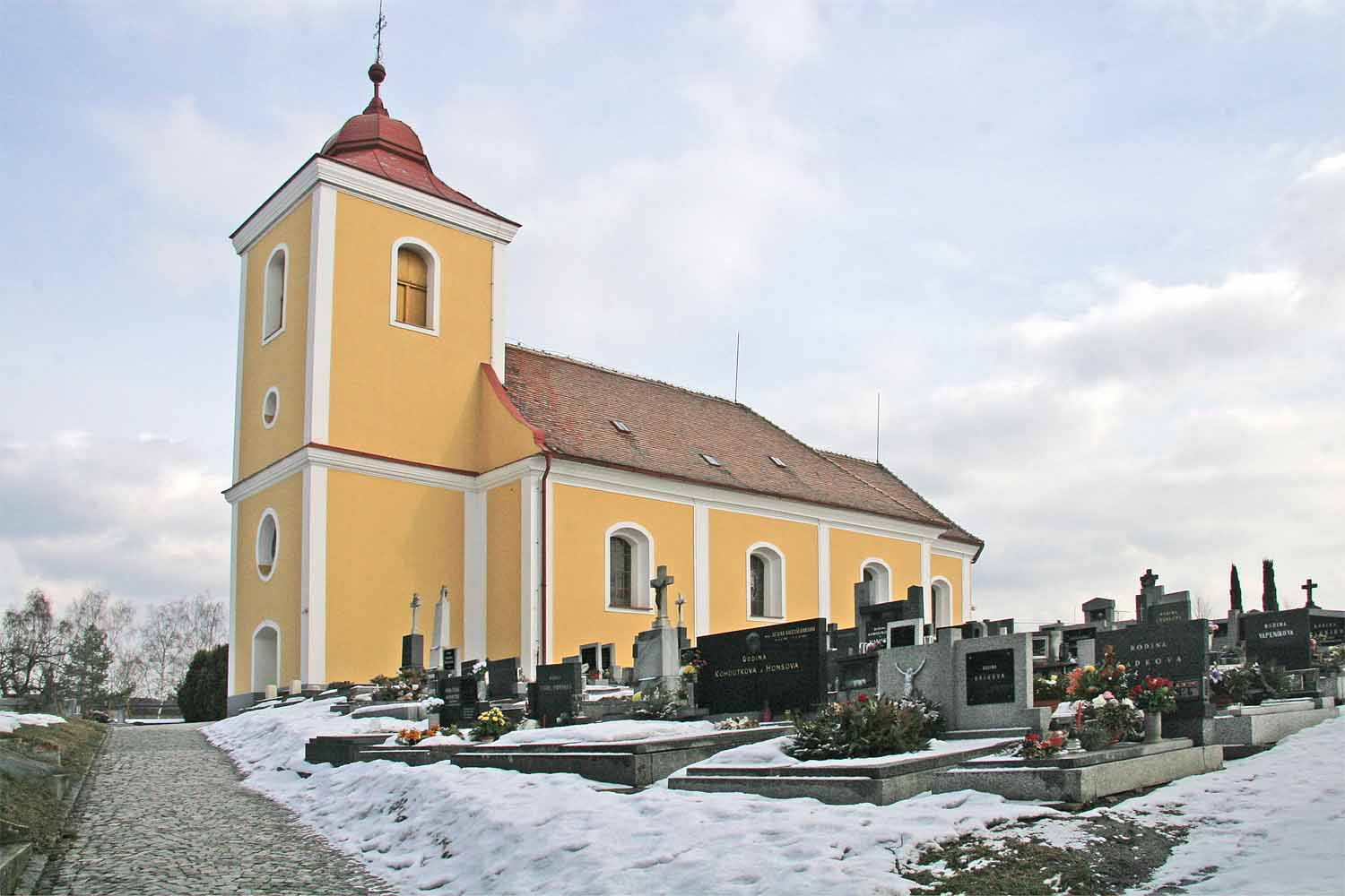 Baroque church of St. George in Býšť, Czech Republic.